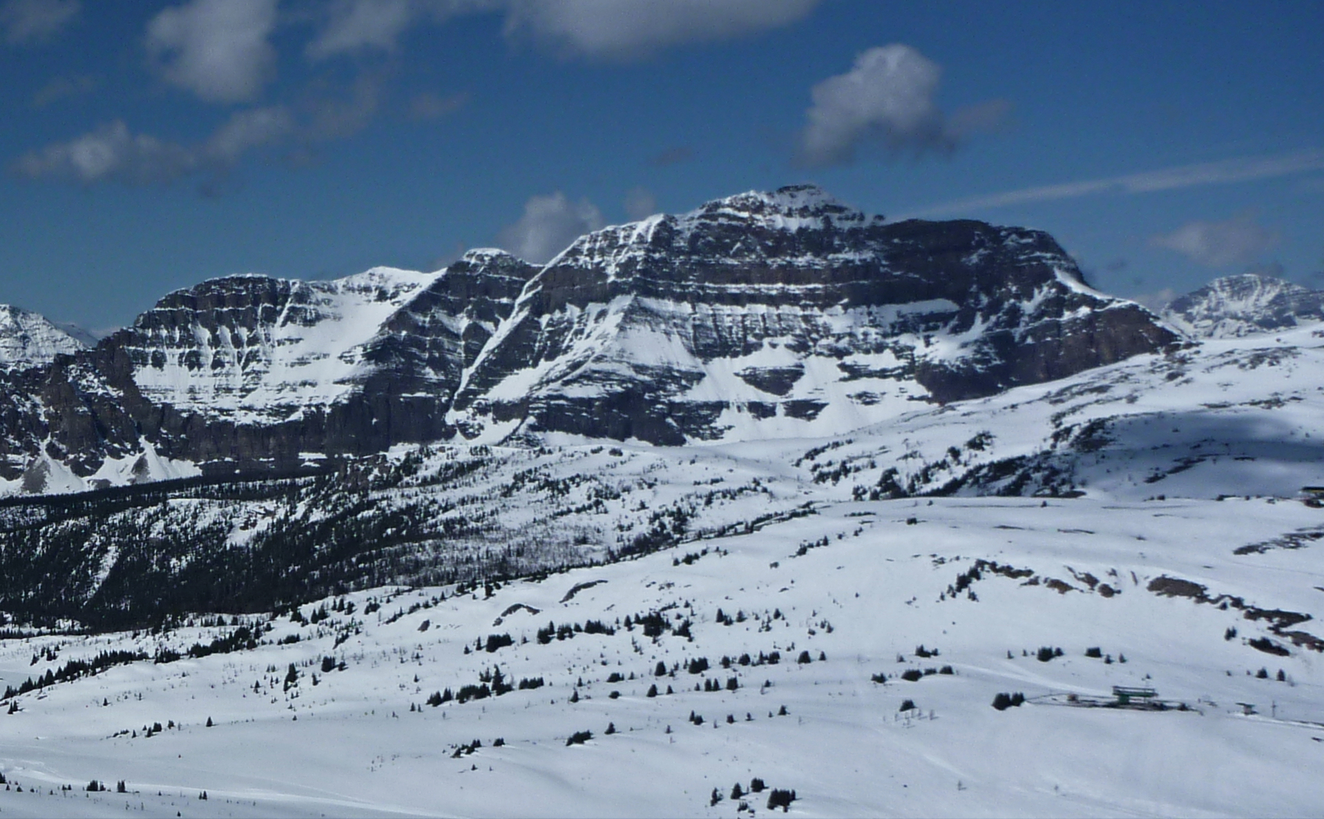 The Monarch seen from Sunshine Village ski area